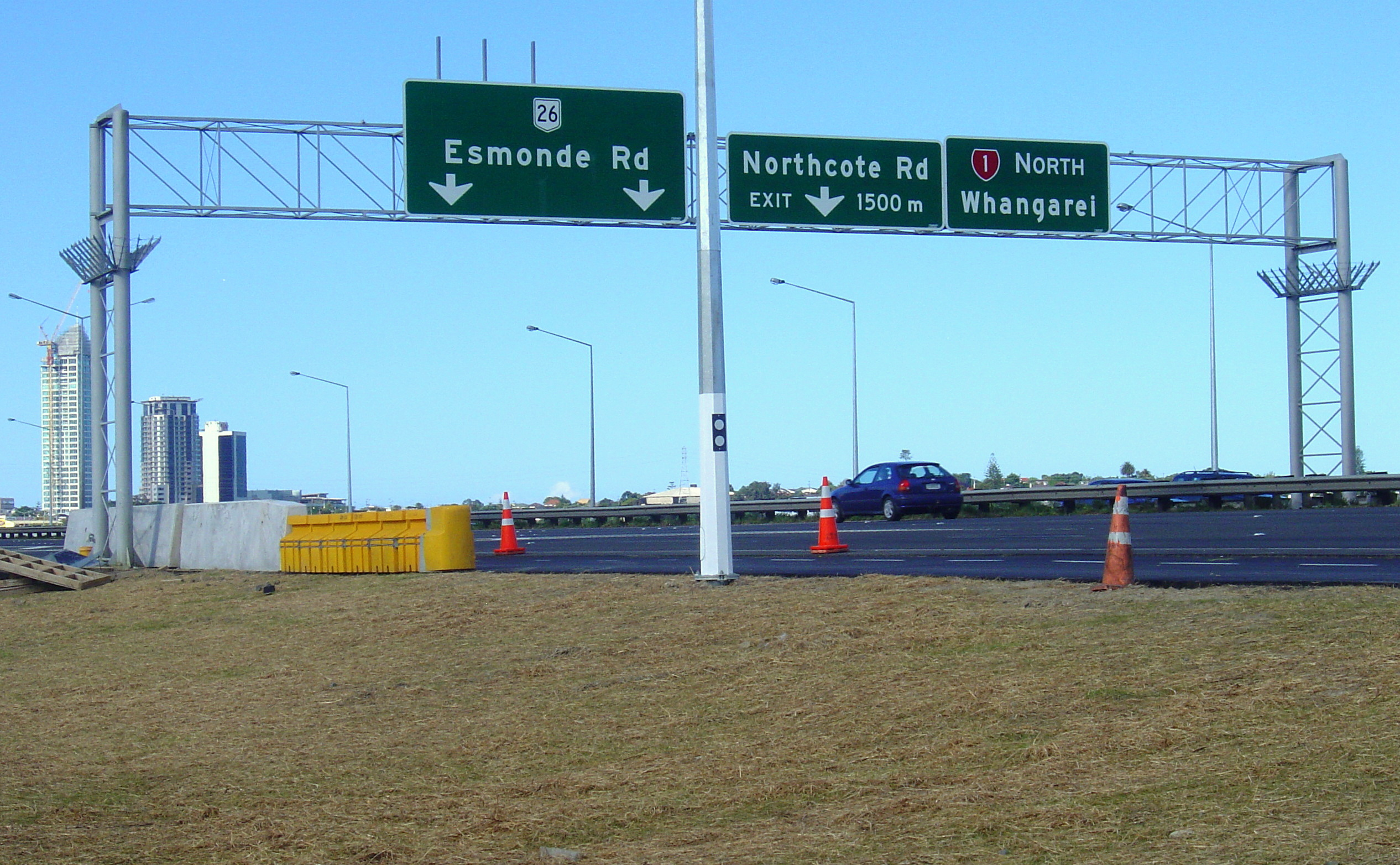 Auckland's Northern Motorway taken near the Esmonde Road offramp to Takapuna